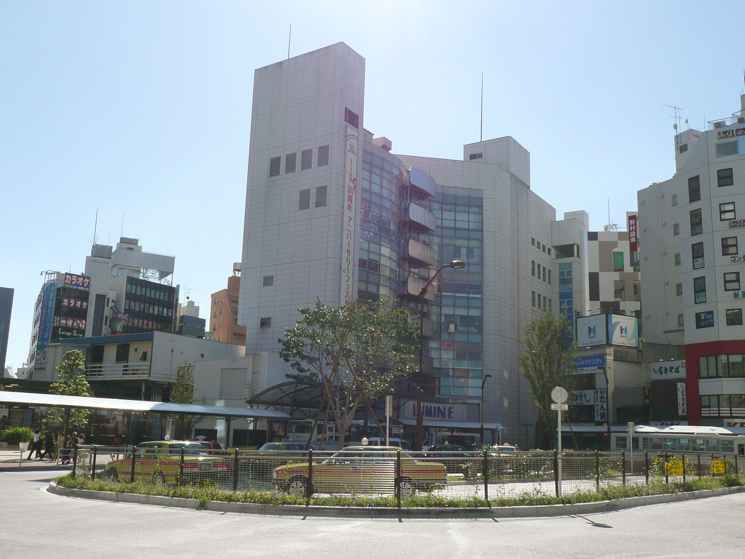 The north side of Ogikubo Station on the Chuo Line